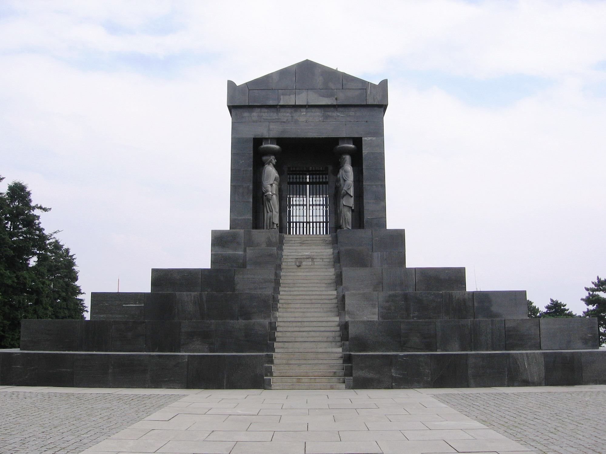 The monument to the Unknown Hero on Mount Avala near Belgrade is a work of sculptor Ivan Meštrović